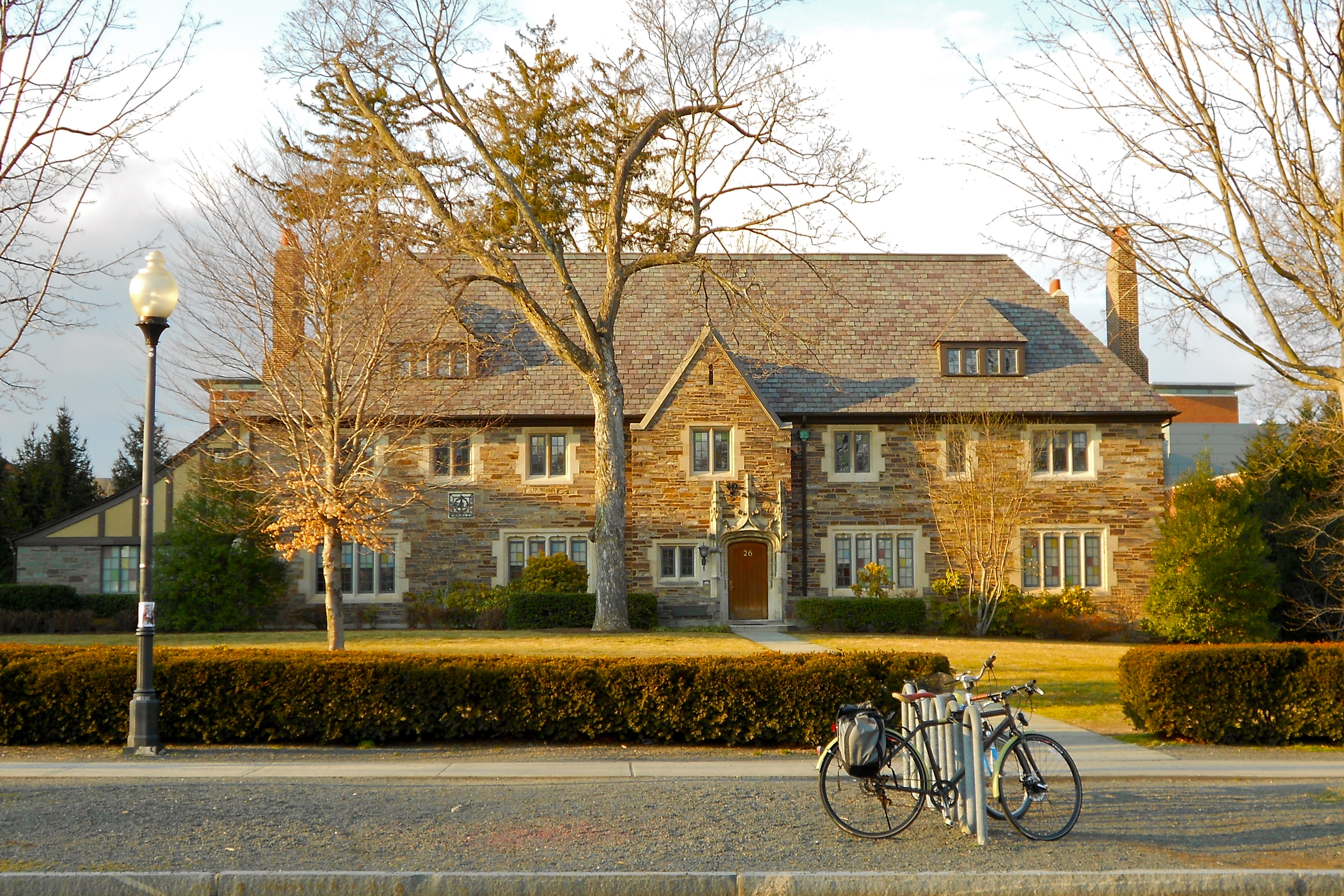 Dial Lodge operated as Eating Club ay Princeton University 1907–1988. 26 Prospect Ave. This building built 1917, in 1970 sold to Princeton University, now the Bendheim Center for Finance, Princeton, New Jersey.